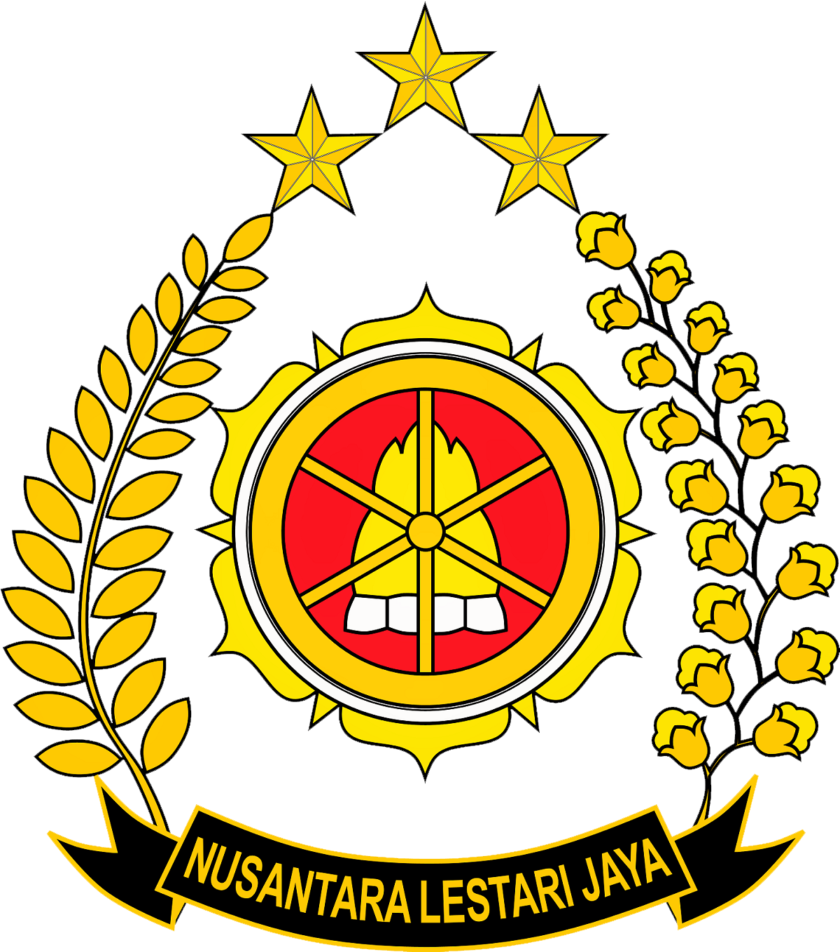 Logo of the Directorate General of Marine and Fisheries Resources Surveillance